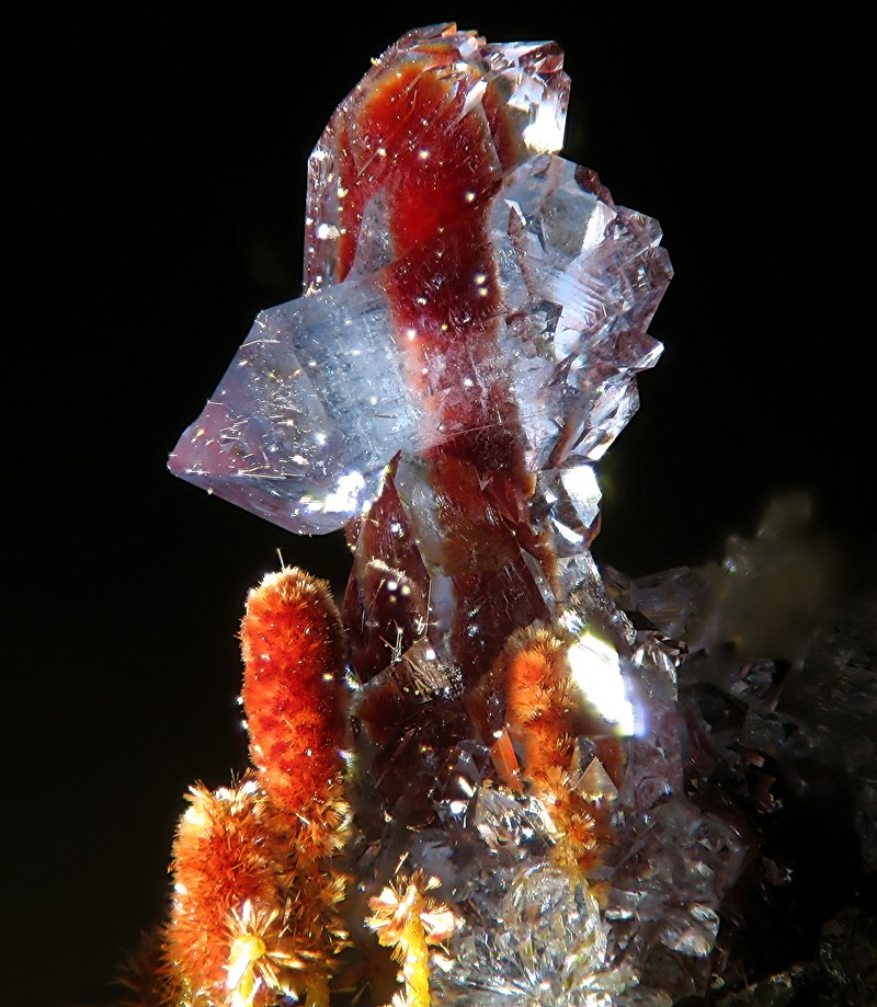 Scorodite, Carminite Locality: Alto das Quelhas do Gestoso Mines, Gestoso, Manhouce, São Pedro do Sul, Viseu District, Portugal Picture width 3 mm. Collection and photograph Christian Rewitzer Blue Scorodite xls on redbrown Carminite.